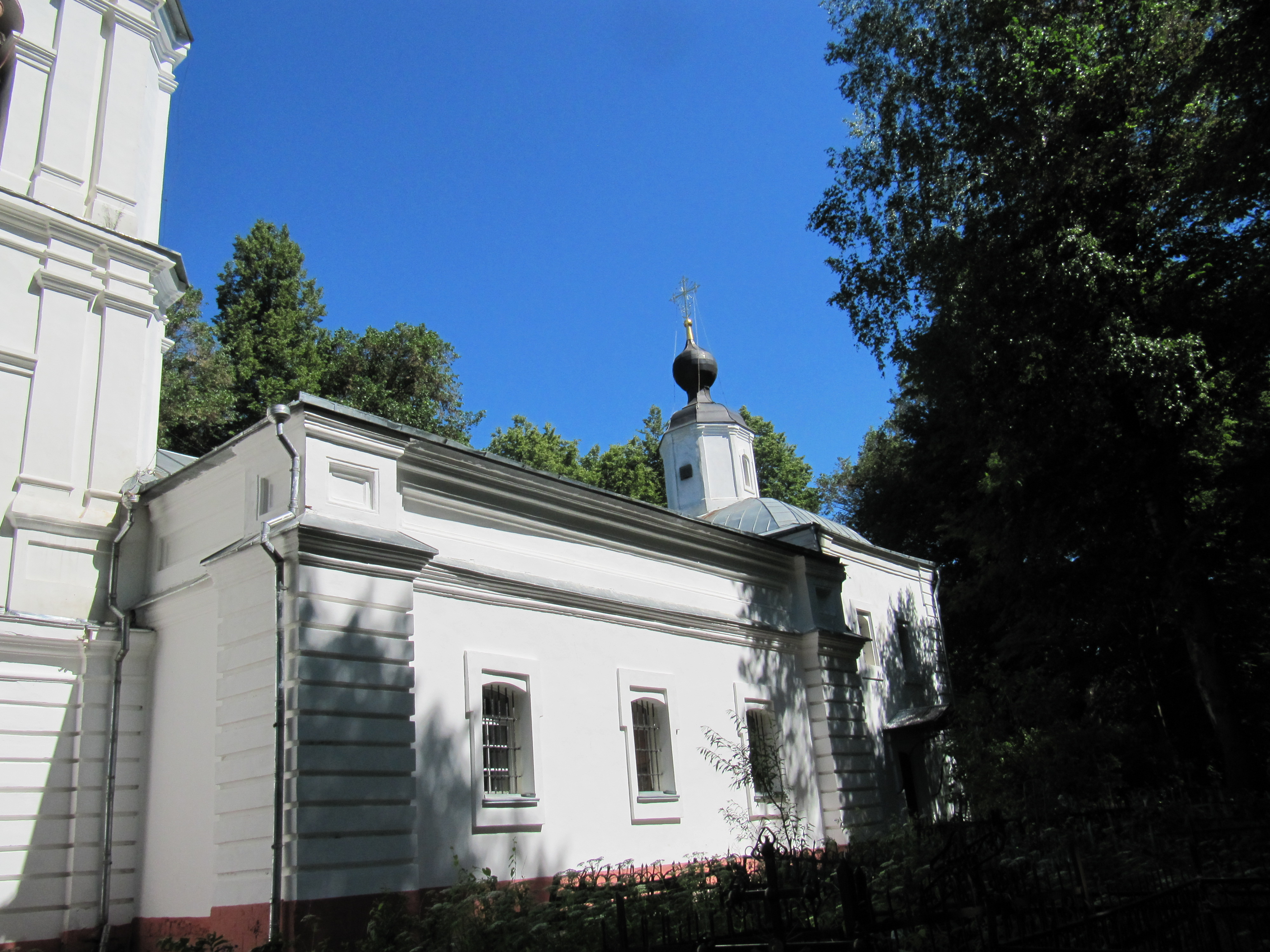 Church of the Assumption in Demyanovo, Klin